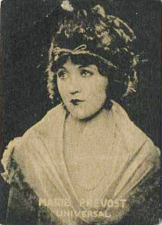 Actress Marie Prevost on a Cuban cigarette card.